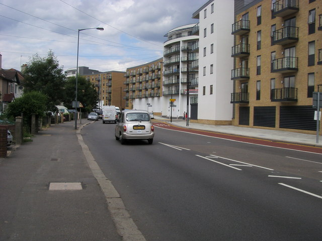 Dunsford Road Dunsford Road passing the apartments built on Plough Lane the former Wimbledon FC ground